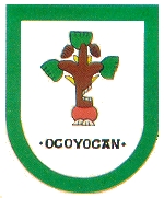 escudo del municipio de santa clara ocoyucan